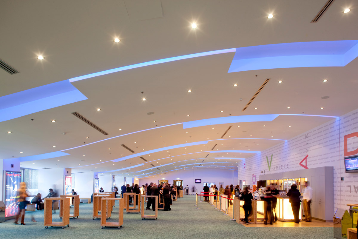 Athens Badminton Theater / Upper Foyer